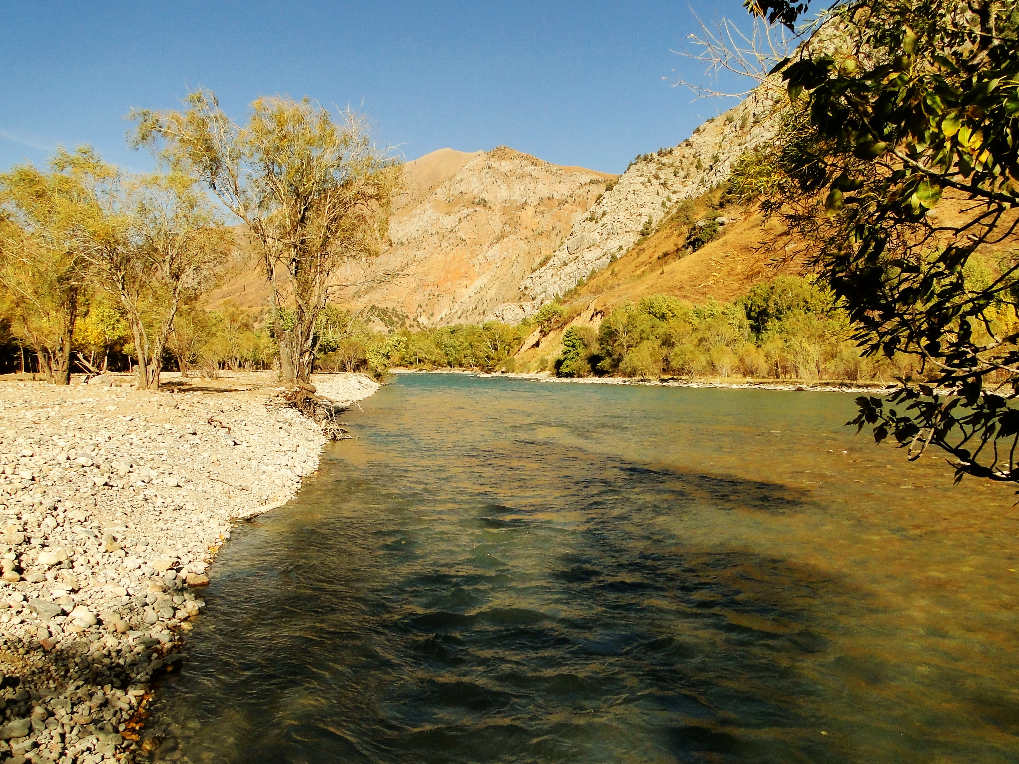 река Ойгаинг, Узбекистан